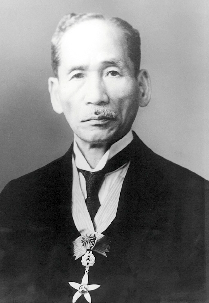 Umetaro Suzuki (鈴木 梅太郎 Suzuki Umetarō, April 7, 1874 – September 20, 1943) was a Japanese scientist, born in Shizuoka Prefecture.